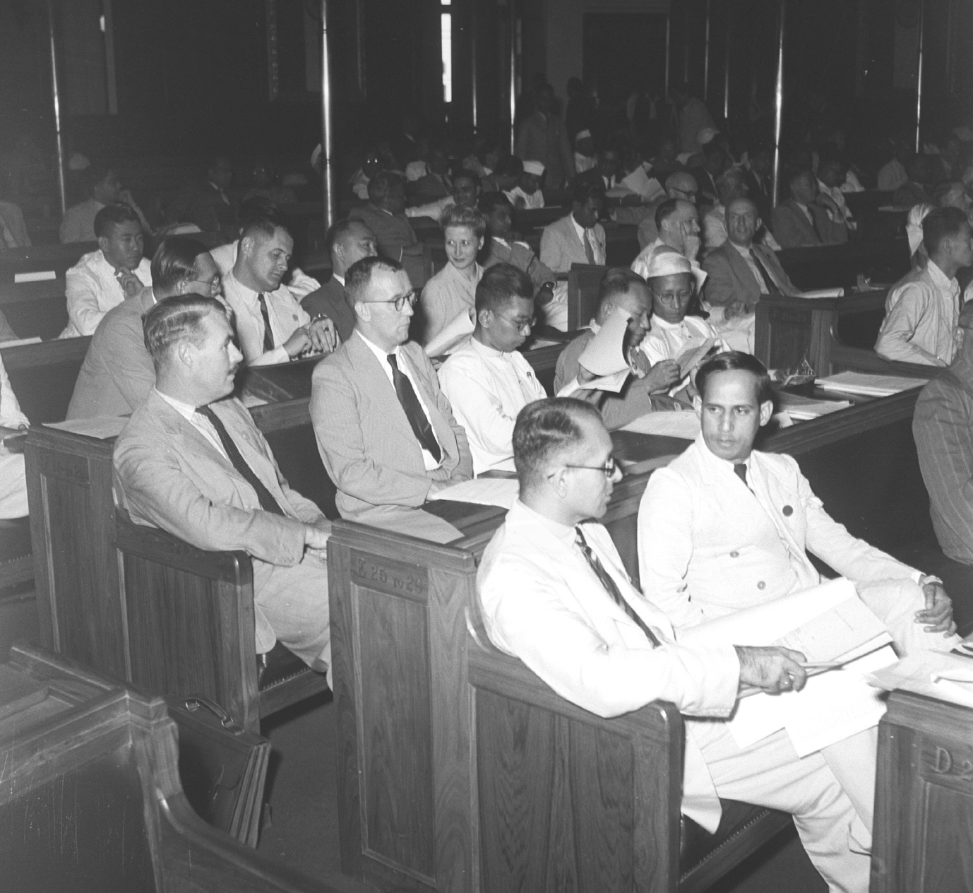 A view of the first plenary session of the Asian Regional Conference of the I.L.O. which opened in New Delhi on October 27, 1947. Delegates from more than twenty countries and observers from the United Nations and other international organizations participated in the conference.